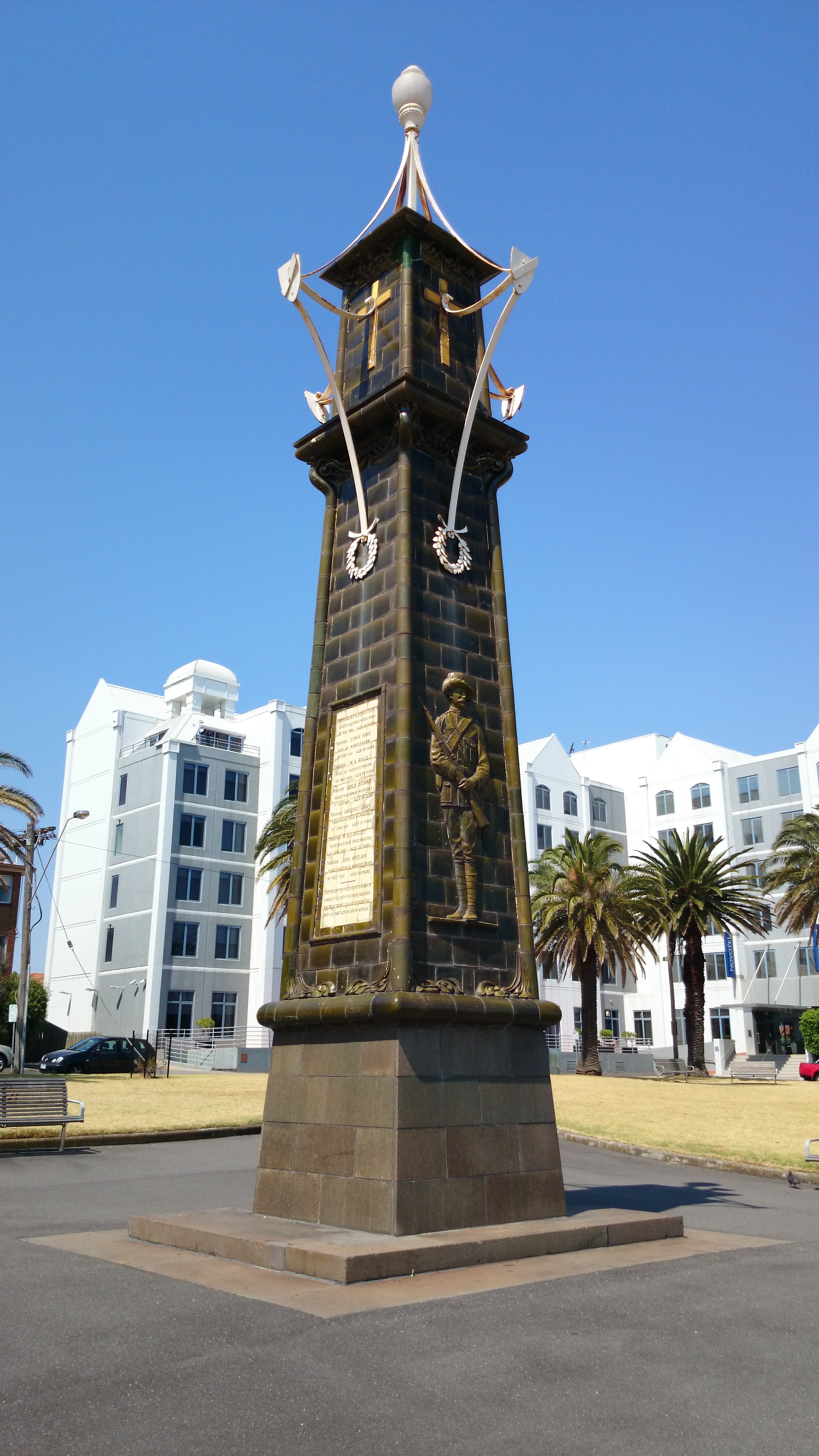 South African Memorial in Alfred Square Gardens, St Kilda.